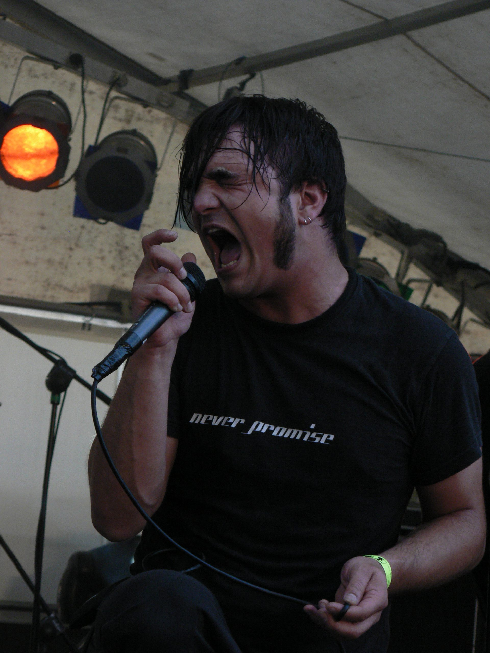 Ole von Fire in the Attic (Vocals)